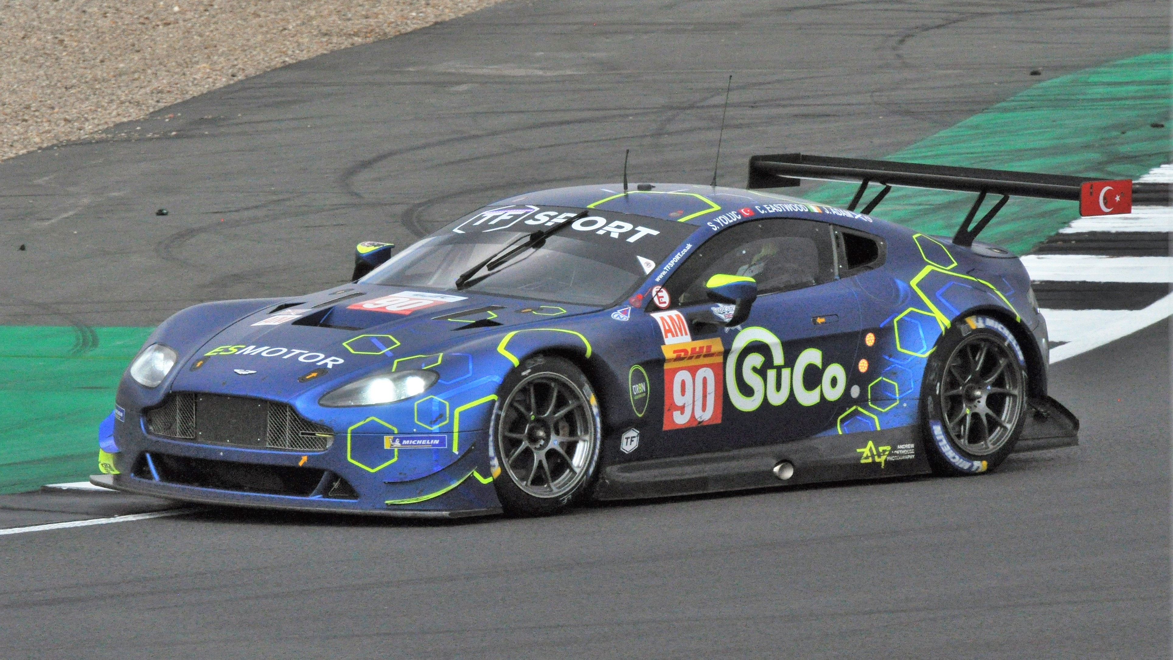 British driver Jonathan Adam hits the first apex of Club corner in the number 90 TF Sport-entered Aston Martin Vantage GTE, during the 2018 6 Hours of Silverstone race. Adam and his co-drivers, Charlie Eastwood and Salih Yoluç, eventually finished second in the LMGTE Am class.